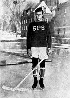 Hobey Baker while a student at St. Paul's School, circa 1908–1910.